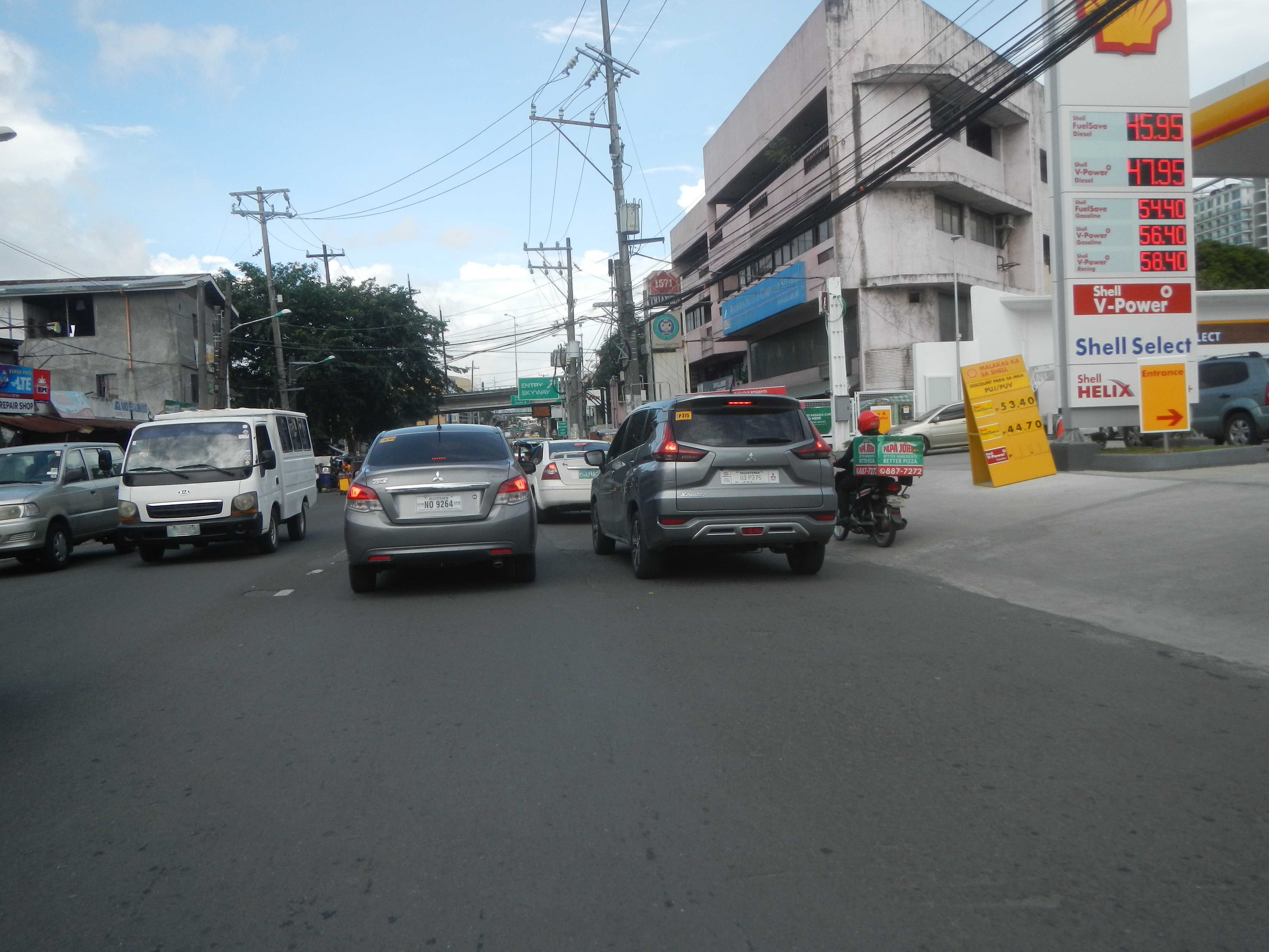 Sitio Bagong Pag-Asa, Sun Valley, Parañaque City Sun Valley, Parañaque City in Districts and barangays Sun Valley 14°29'29"N 121°2'1"E Parañaque City from Doña Soledad Avenue (Note: Judge Florentino Floro, the owner, to repeat, Donor Florentino Floro of all these photos hereby donate gratuitously, freely and unconditionally Judge Floro all these photos to and for Wikimedia Commons, exclusively, for public use of the public domain, and again without any condition whatsoever).